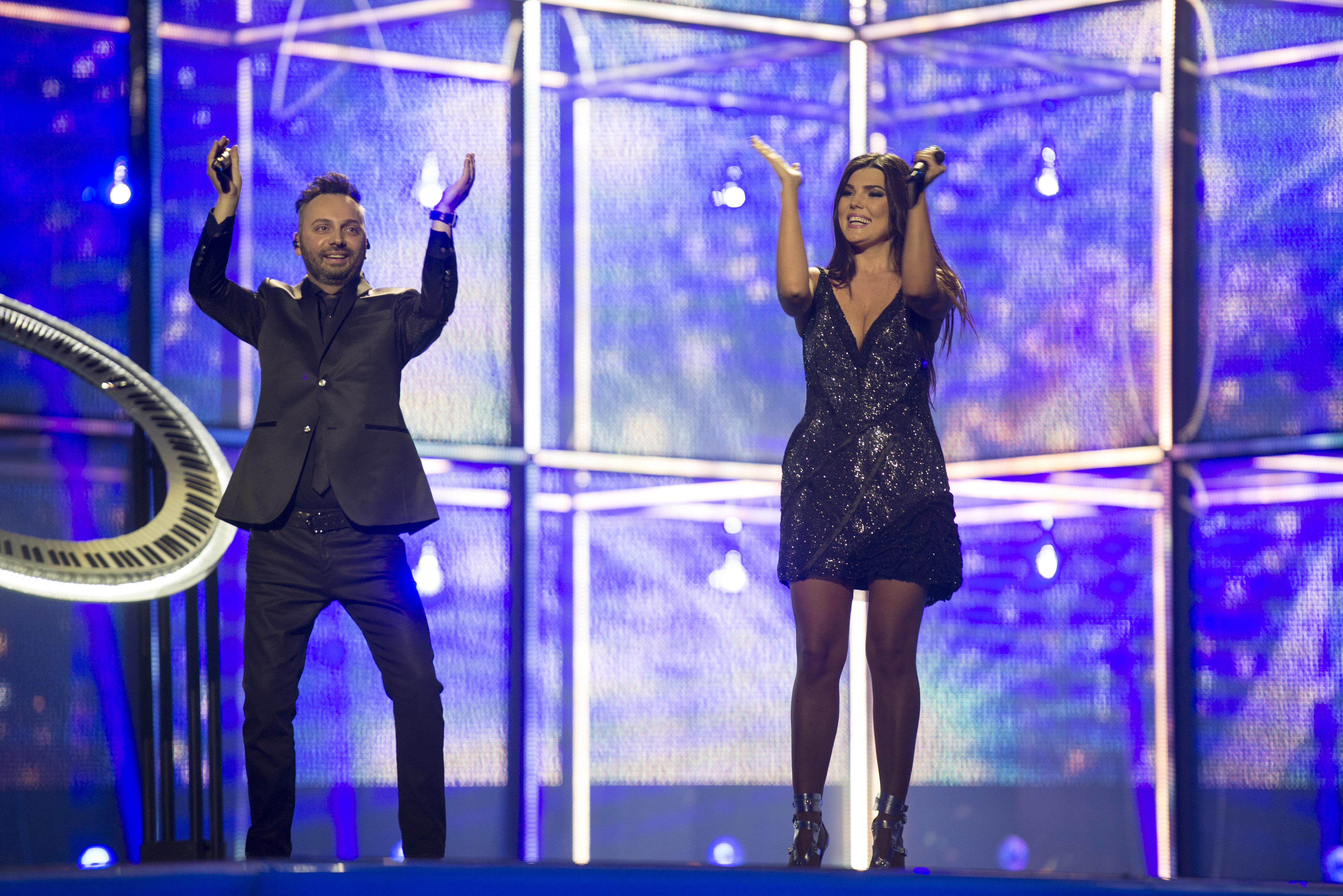 Paula Seling and Ovidiu Cernăuțeanu representing Romania with the song "Miracle" during the first dress rehearsal of the second semi final of the Eurovision Song Contest 2014 Copenhagen. (Help translate this text)